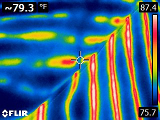 Thermal image of an electric blanket and a down comforter. The electric blanket on the right heats up and leaves a warm pattern on a comforter.